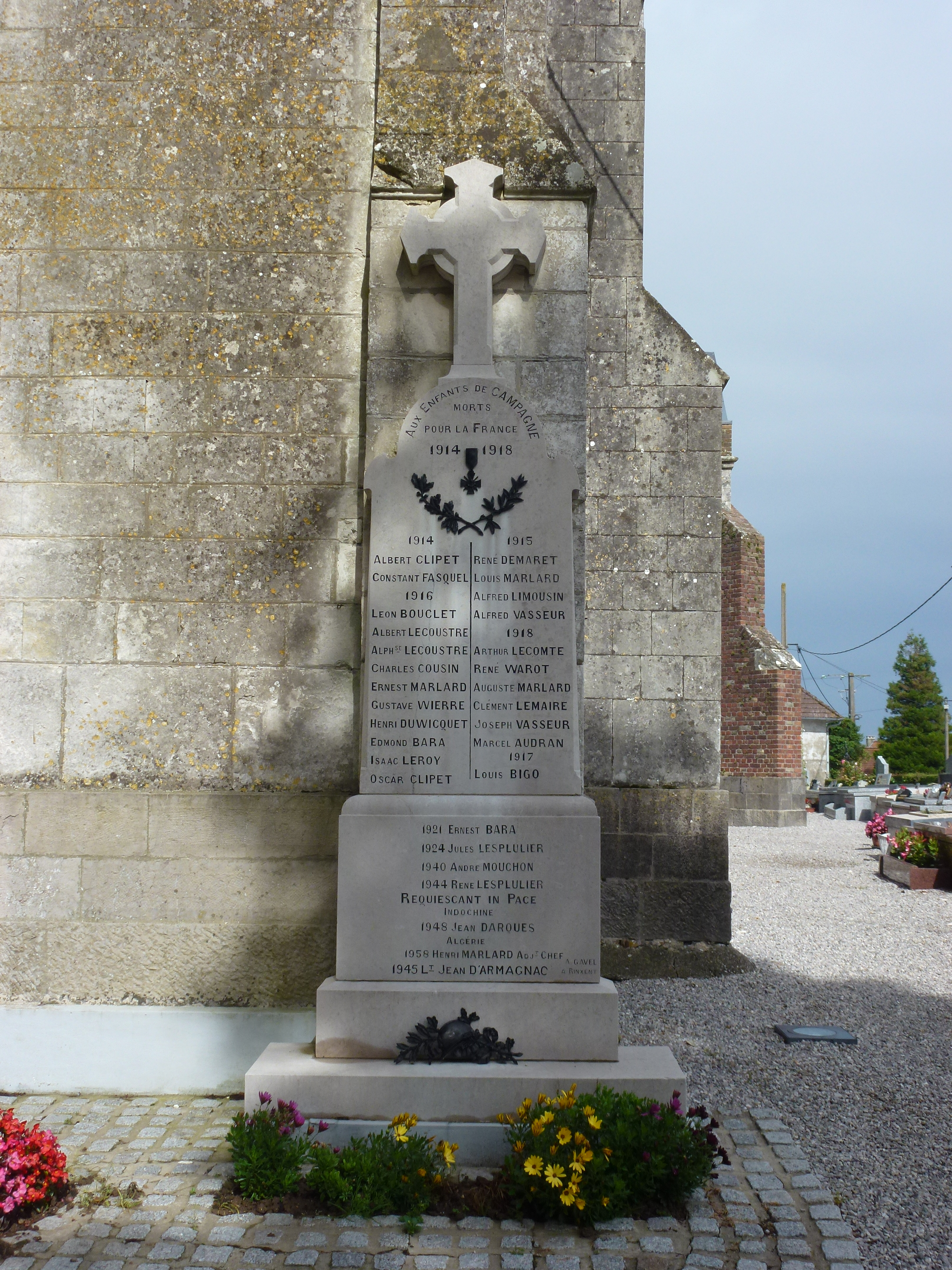 Campagne-lès-Guines (Pas-de-Calais) monument aux morts